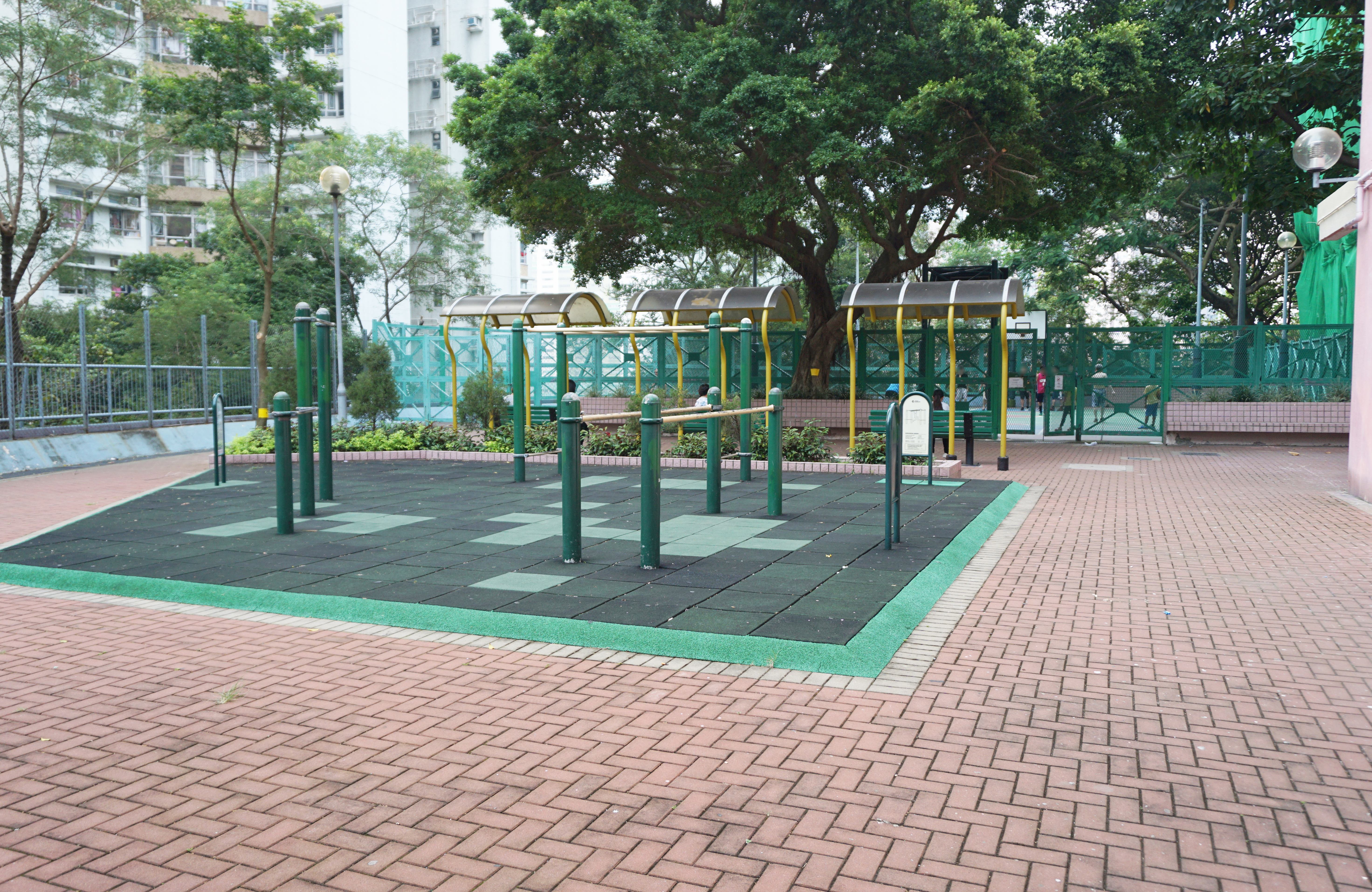 Ap Lei Chau Estate in Ap Lei Chau, Hong Kong.